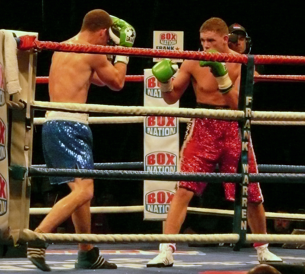 Billy Joe Saunders (right) fighting Gary Boulden at Wembley Arena.